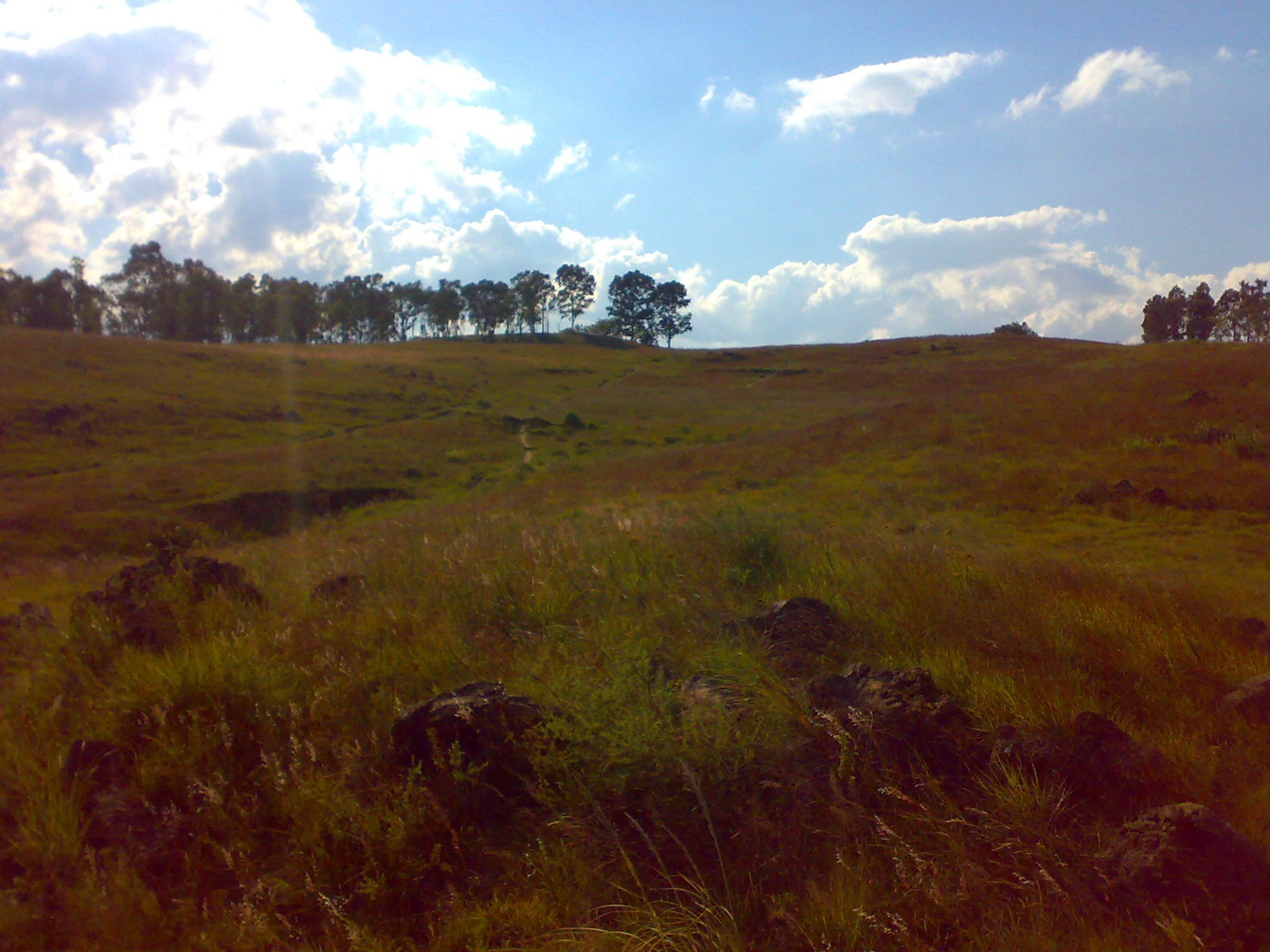 "Cerro del Zapotecas"